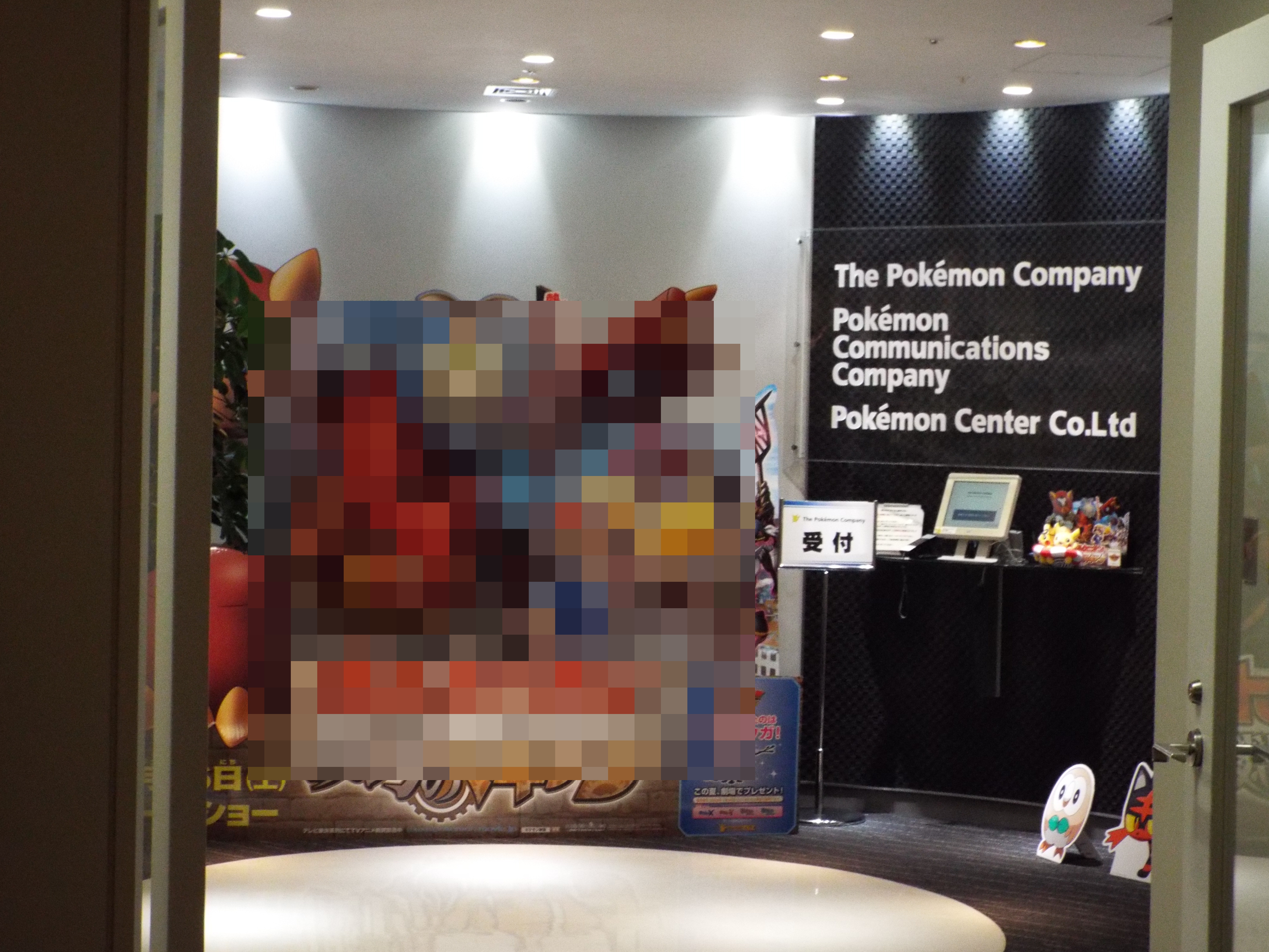 Roppongi Hills Mori Tower 18F